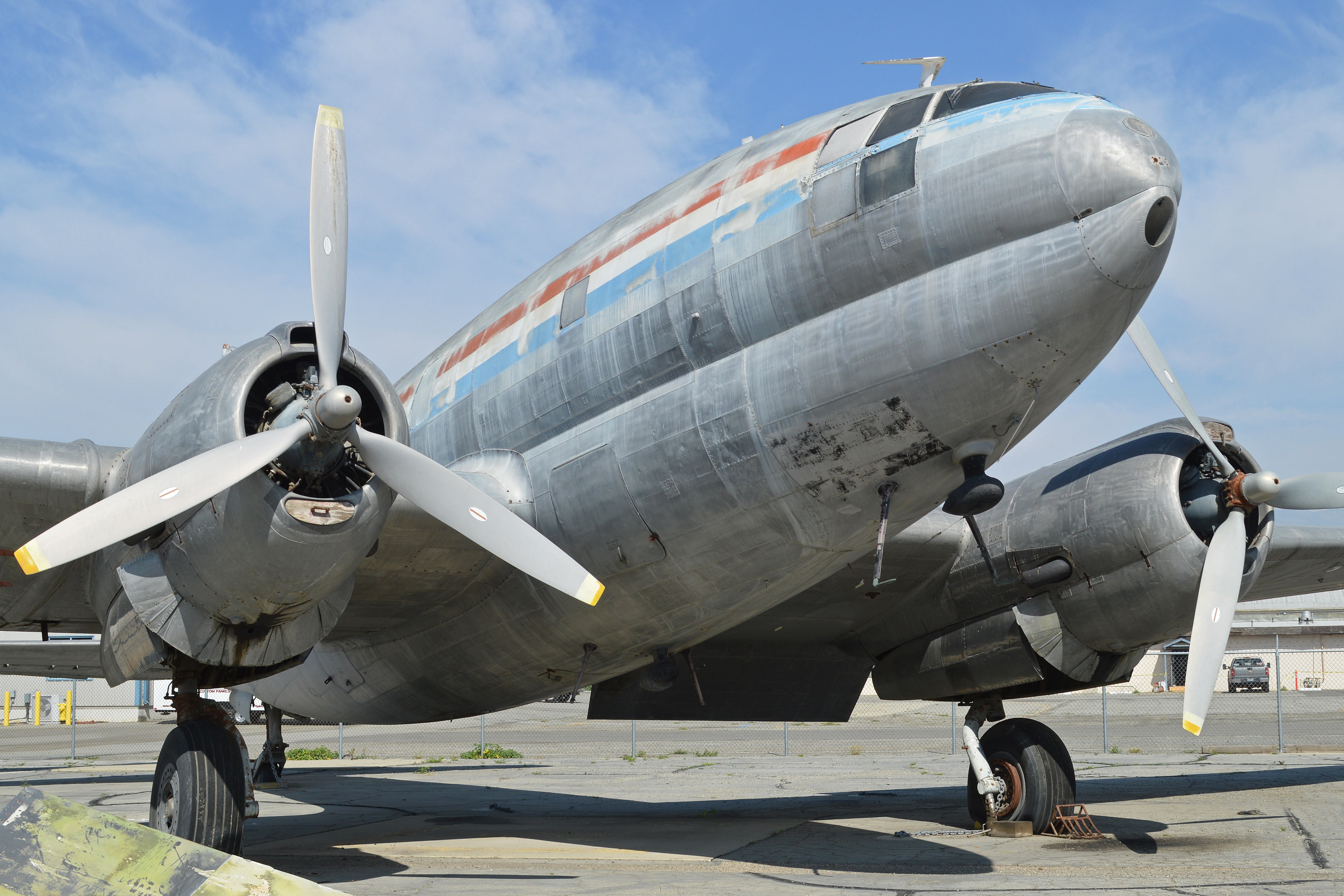 c/n 289. Built 1945. US military serial 43-47218. Stored outside at the Yanks Air Museum, Chino, California, USA. 28-2-2016